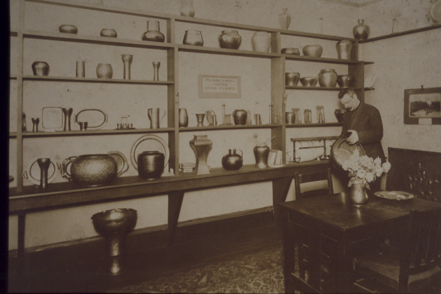 Picture of metalsmith Dirk van Erp in his shop, showing work in showroom. Date unknown.